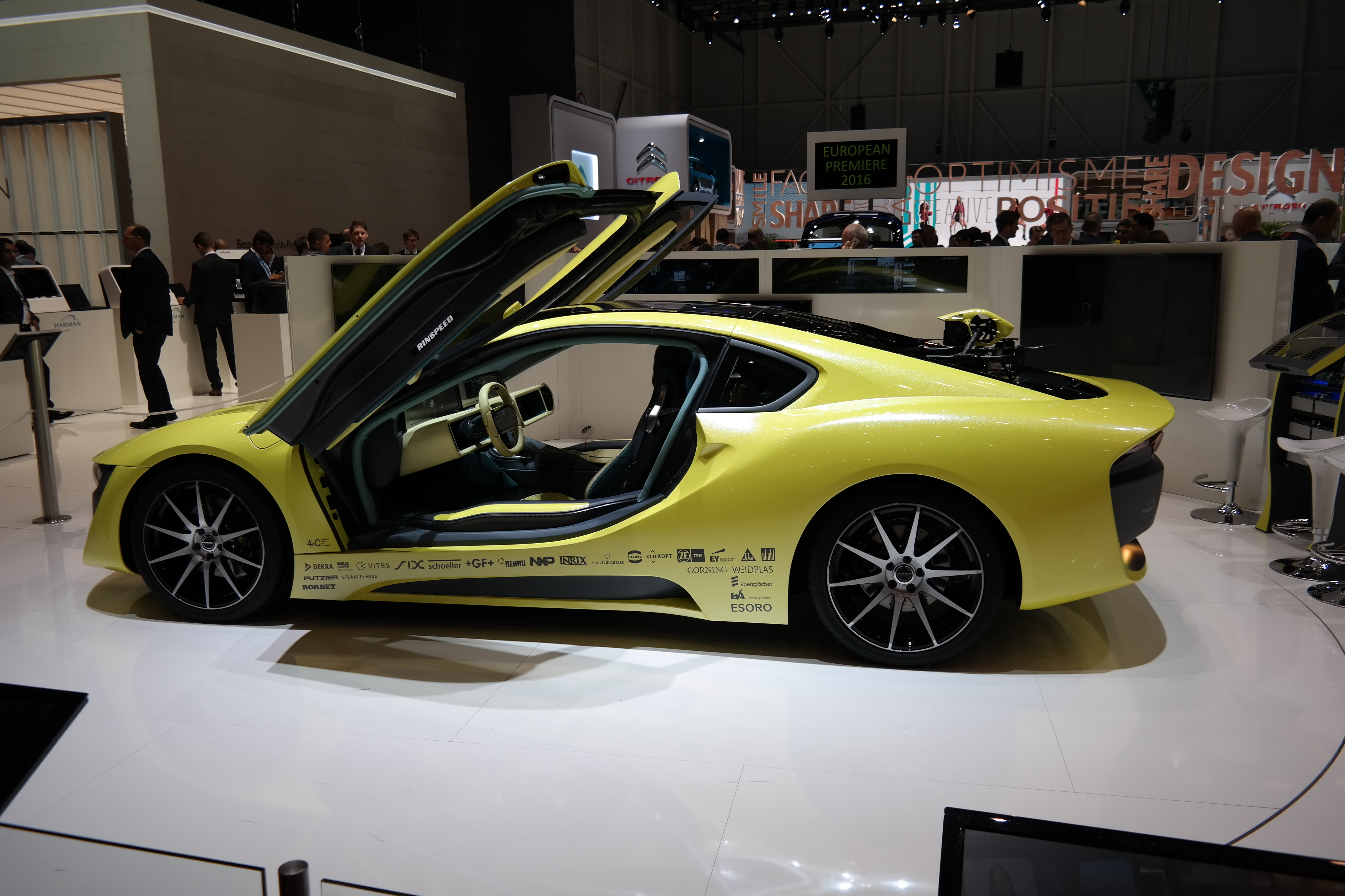 Geneva Motor Show 2016 (photo taken on the first press day)